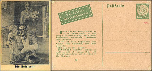 A stamped propaganda postcard issued in USSR for German troops for Christmas of 1941, Battle for Moscow, December 1941. A falsified postcard with a standard 6 pfennig German stamp depicting Paul von Hindenburg; obverse and reverse sides.